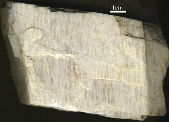 Perthite Feldspar from Dan Patch Pegmatite, Black Hills, South Dakota